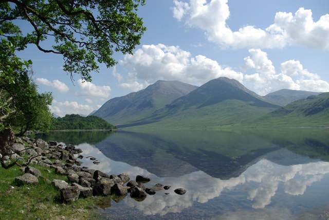 Ben Starav & Loch Etive from NN073393